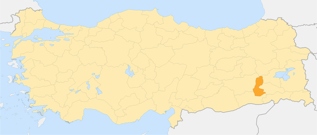 Shows the location of the province Batman in Turkey